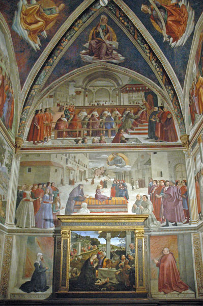 Santa Trinita. Sassetti Chapel. Florence